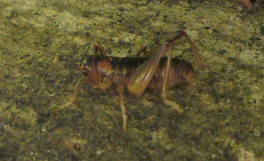 Hemiandrus pallitarsis (or other species?), a species of ground weta. Picture taken in Upper Hutt, New Zealand.